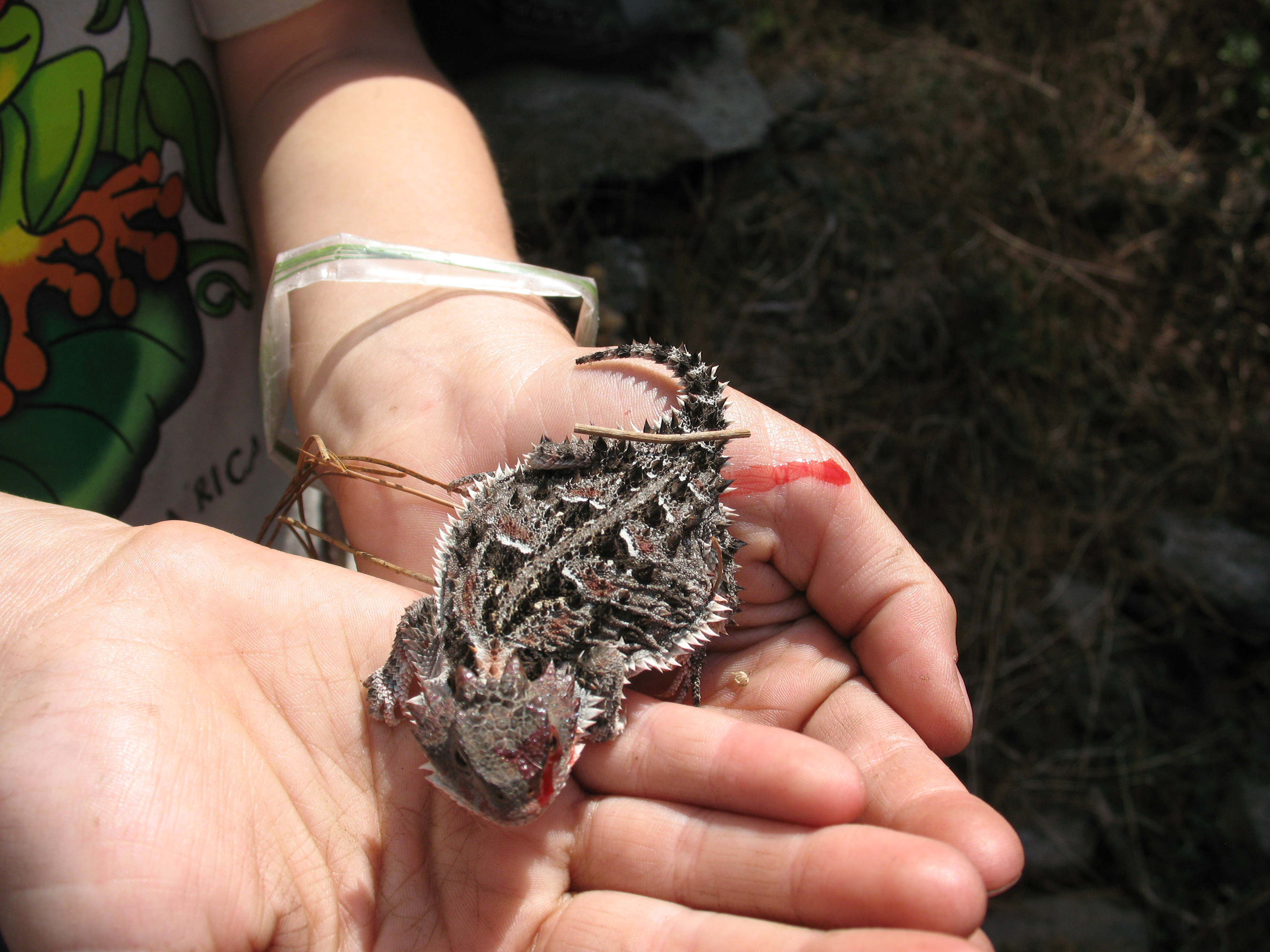 Mexican Plateau horned lizard — Phrynosoma orbiculare. Near Xalapa de Enríquez, Veracruz, Mexico.